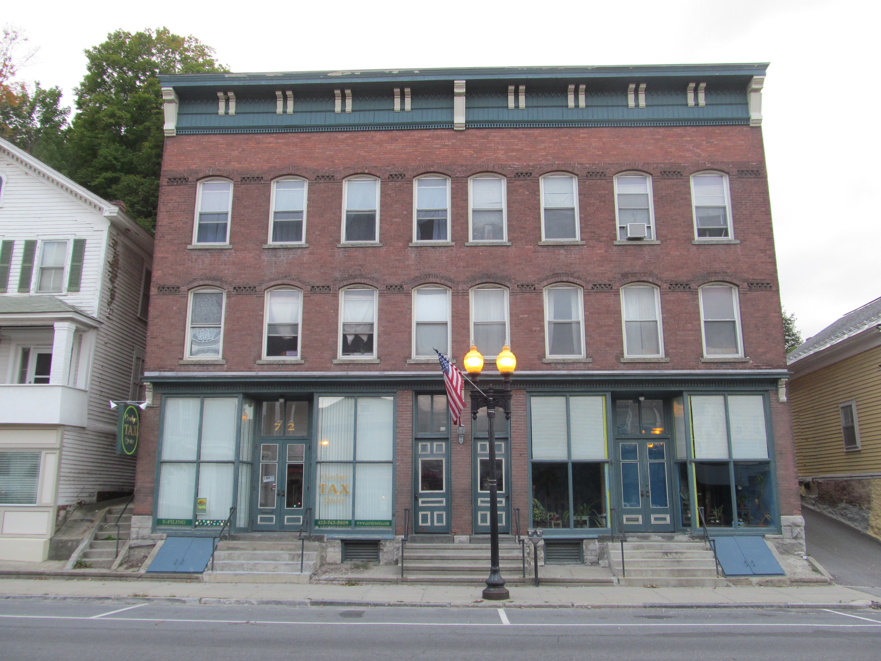 P. J. Barrett Block, 72 Park Street, Adams Massachusetts